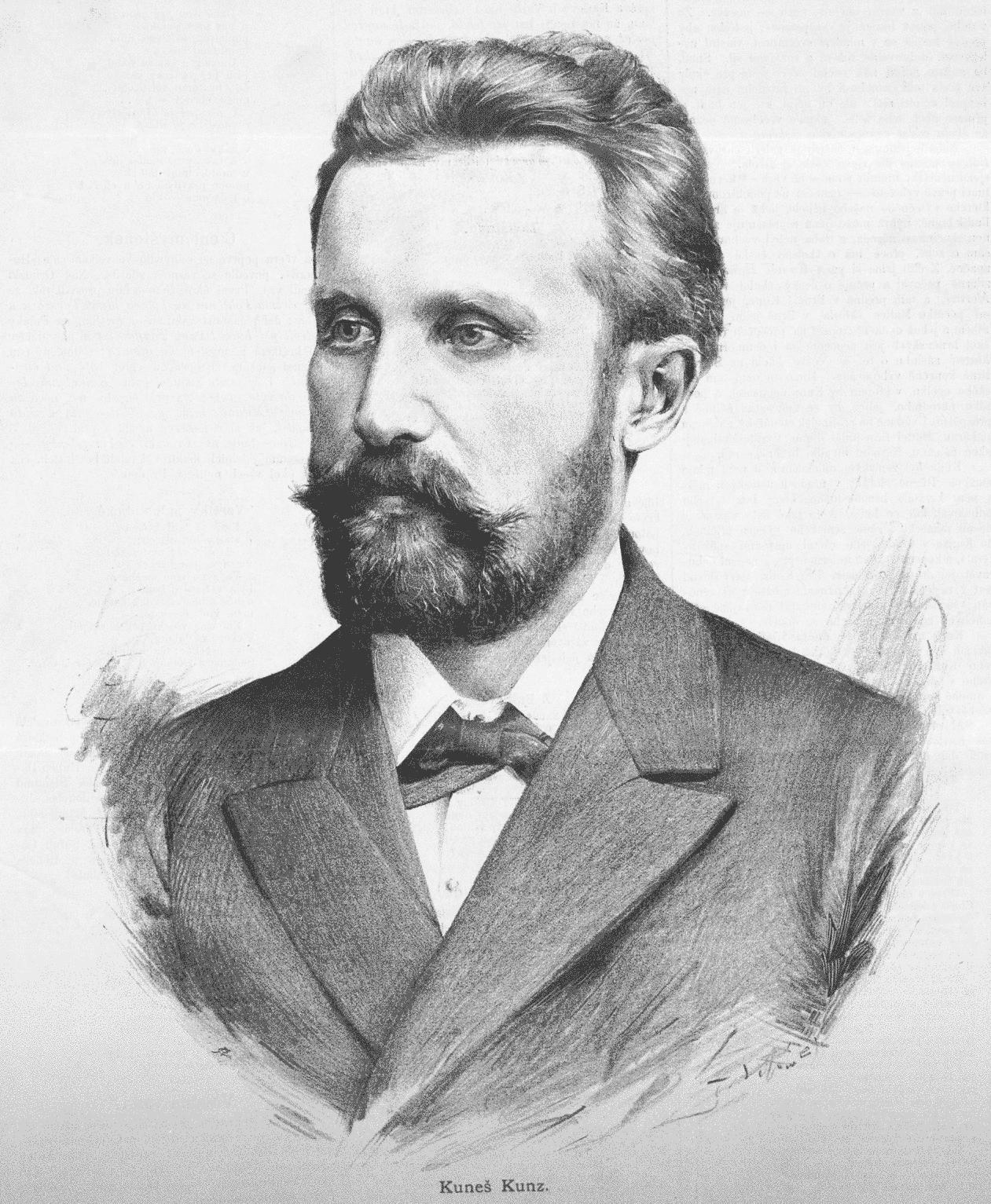 Portrait of Kuneš Kunz (1846 - 1890), promoter of Czech-language schools in Brno, Moravia (present-day Czech Republic)